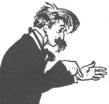 Sketch Club cartoon of George Charles Haité by Dudley Hardy. Detail of 1899 London Sketch Club supper card.